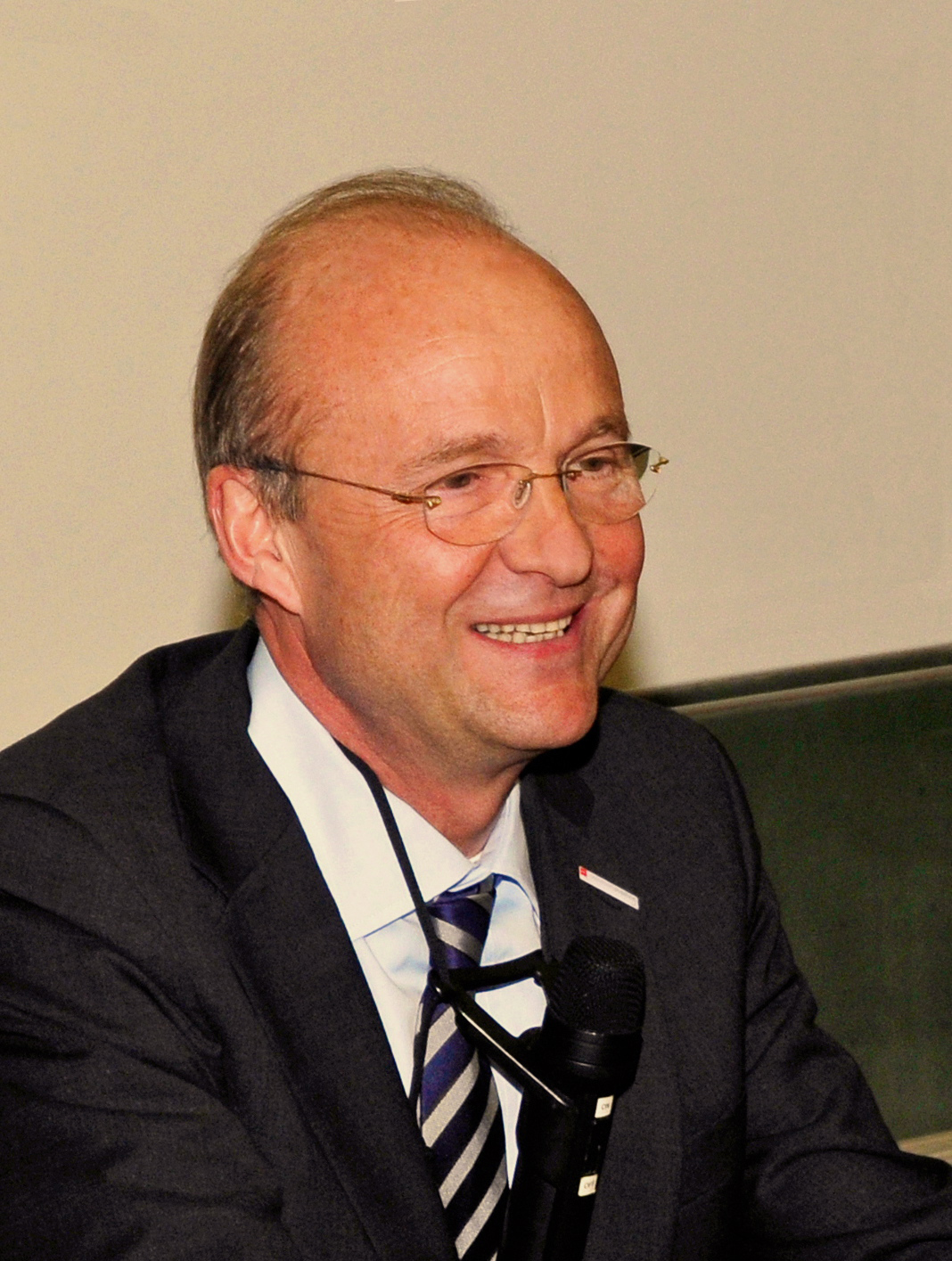 Ulrich_Forstermann_2013